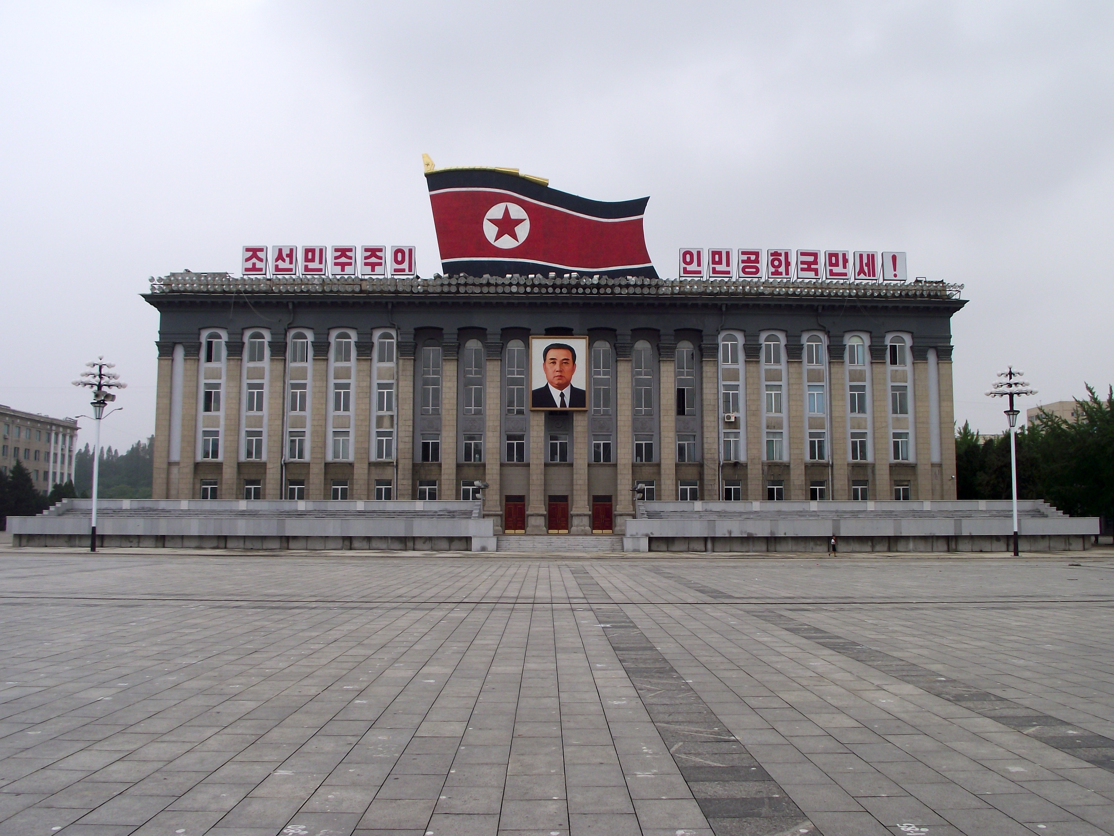 Headquarters of Workers' Party of Korea